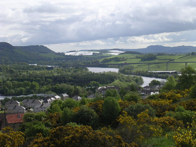 The River Tay and Friarton bridge. The view is taken from Craigie Hill to the south of Perth looking east along the valley of the Tay.